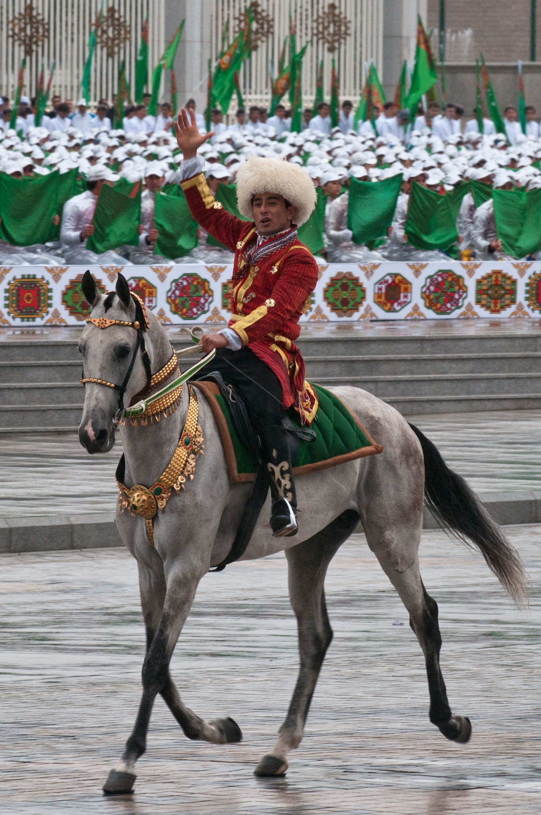 Celebrating the 20th year of independence in Turkmenistan